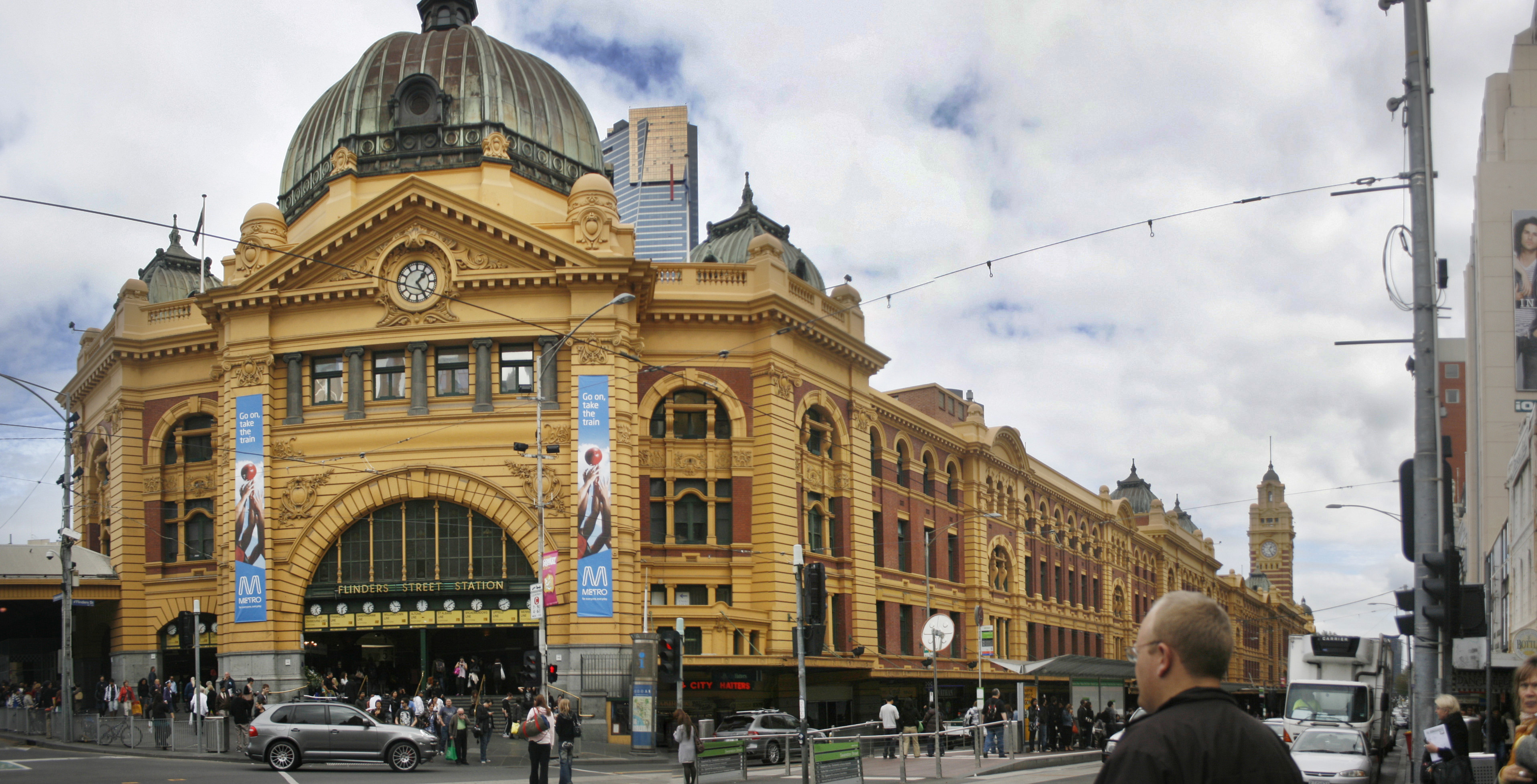 view of Flinders Street Station, Melbourne, Australia, from Swanston St